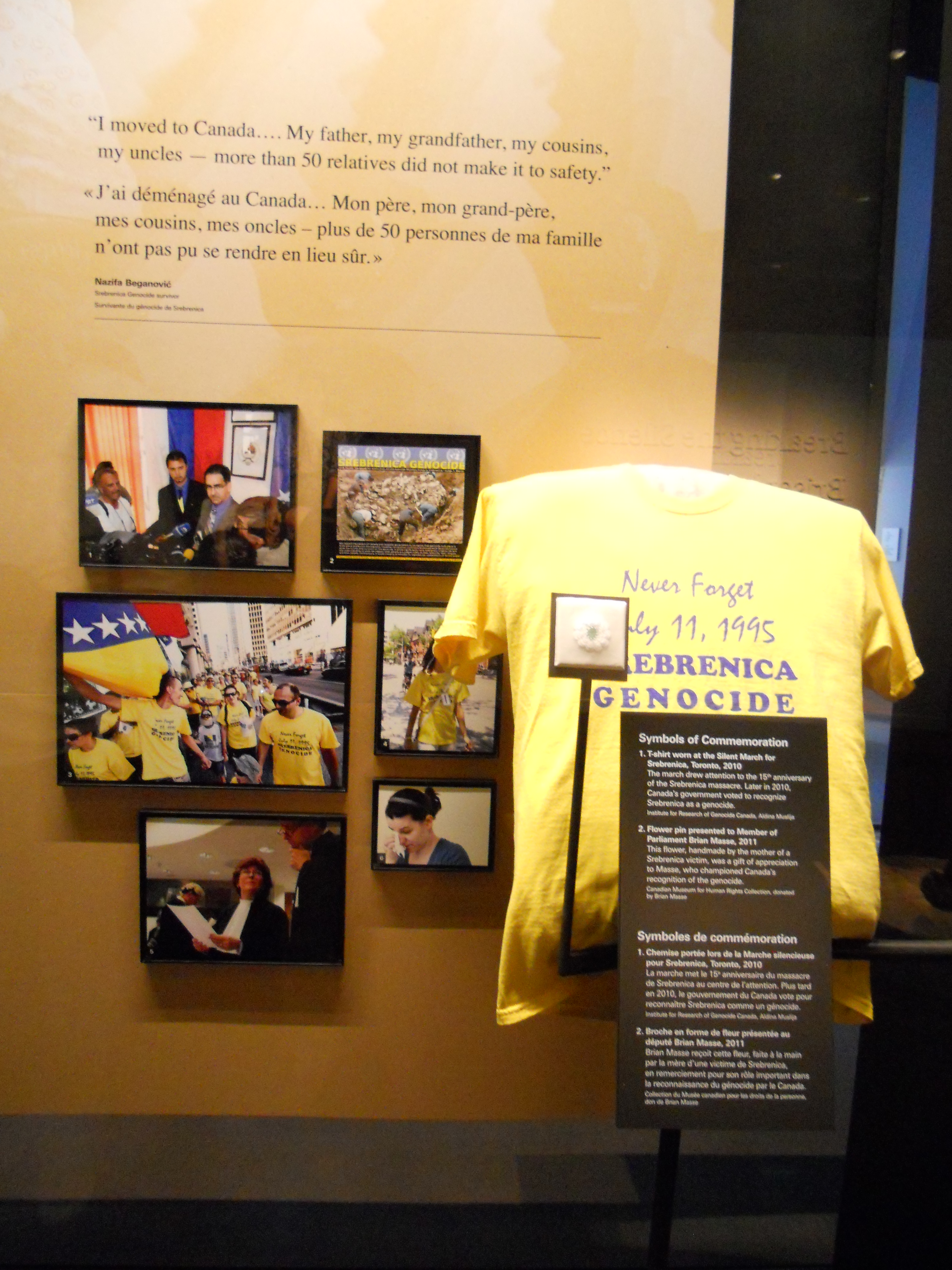 Canadian Museum for Human Rights